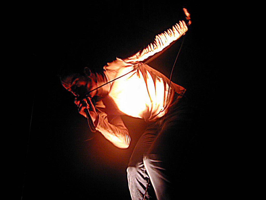 Madrugada holding a concert in the MH building at the University of Tromsø during "StudentUKA". Photo: Krister Brandser